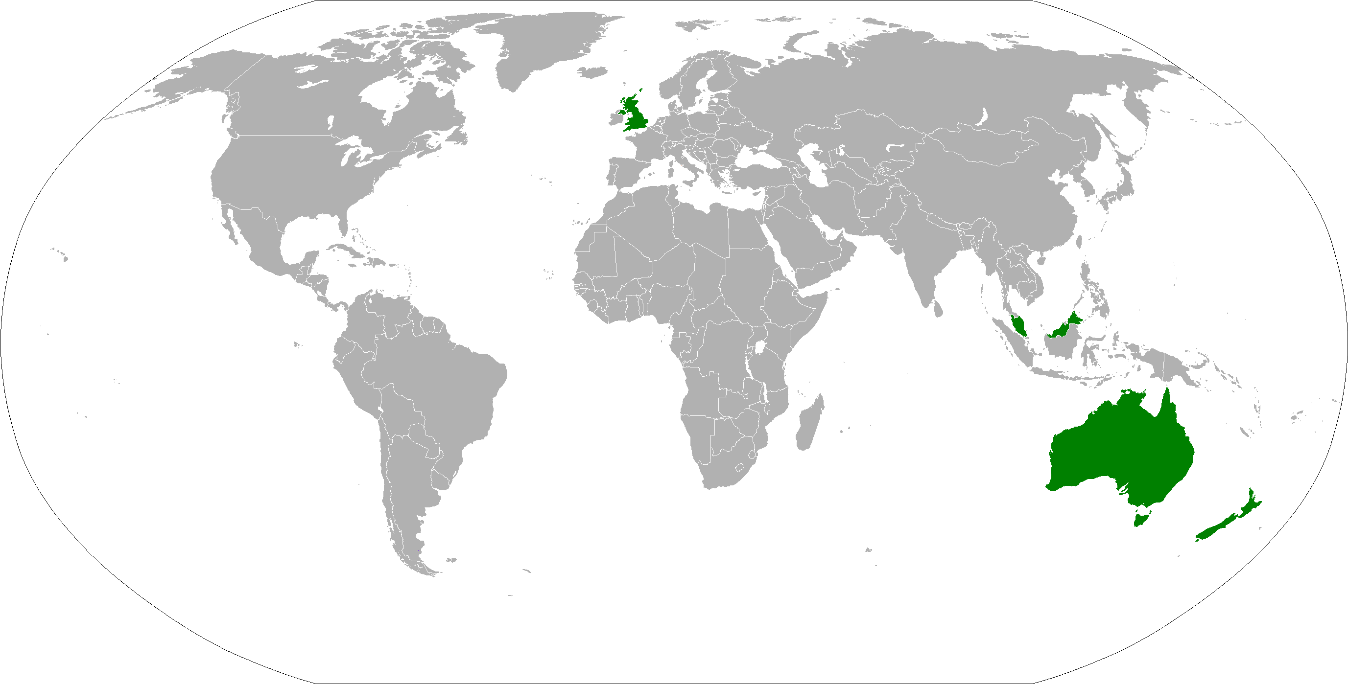 The member nations of the Five Power Defence Arrangements